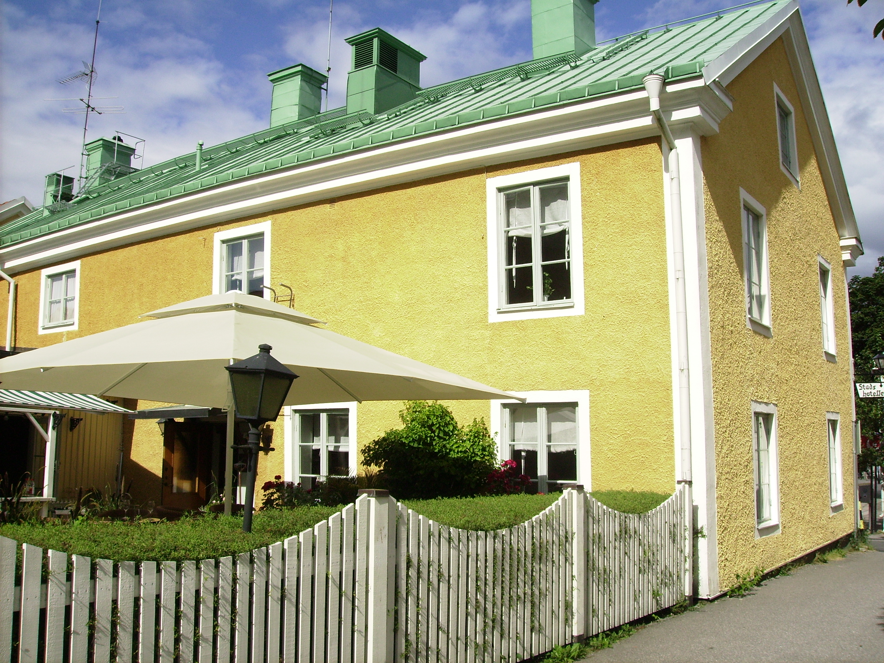 Picture of Trosa stadshotell in Södermanland